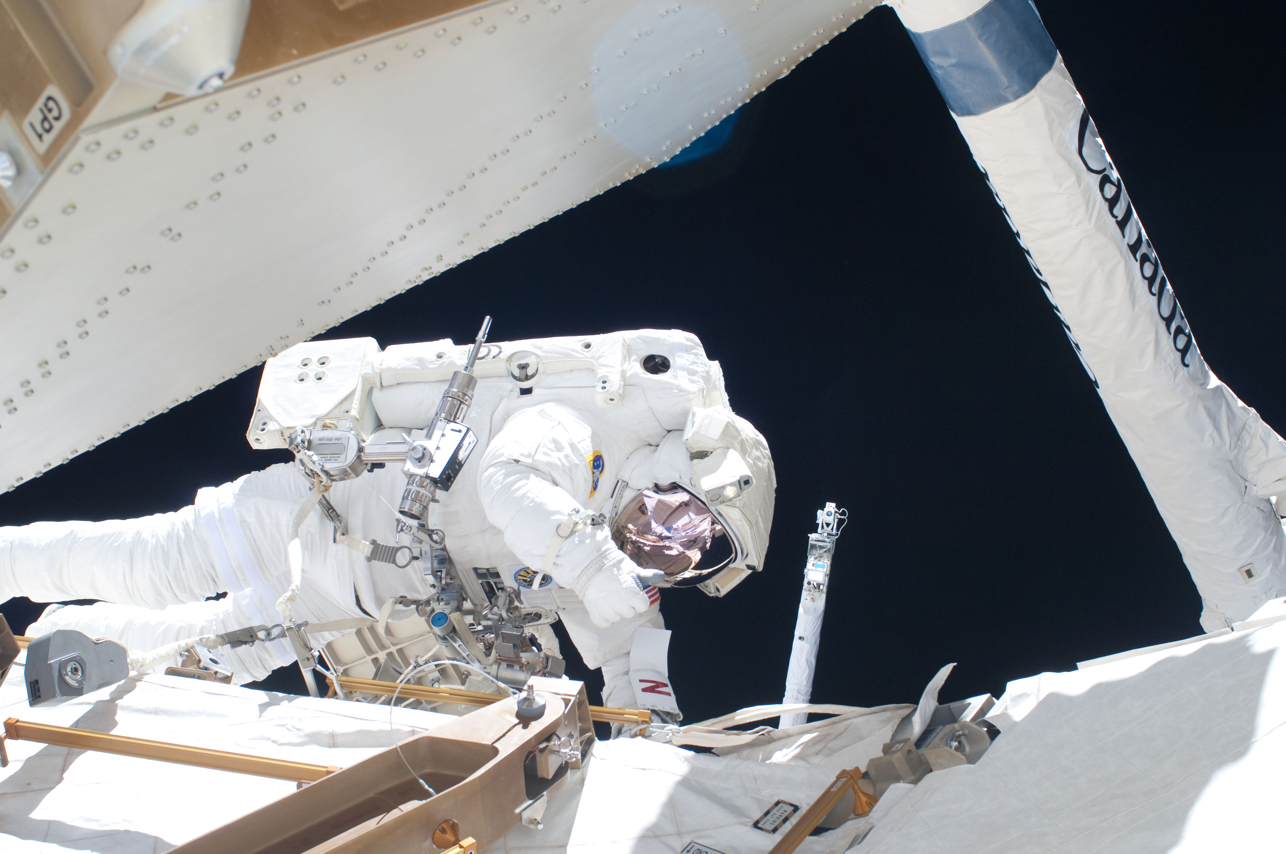 NASA astronaut Clayton Anderson, STS-131 mission specialist, participates in the mission's second session of extravehicular activity (EVA) as construction and maintenance continue on the International Space Station. During the seven-hour, 26-minute spacewalk, Anderson and Rick Mastracchio (out of frame), mission specialist, unhooked and removed the depleted ammonia tank and installed a 1,700-pound ammonia tank on the station's Starboard 1 truss, completing the second of a three-spacewalk coolant tank replacement process.